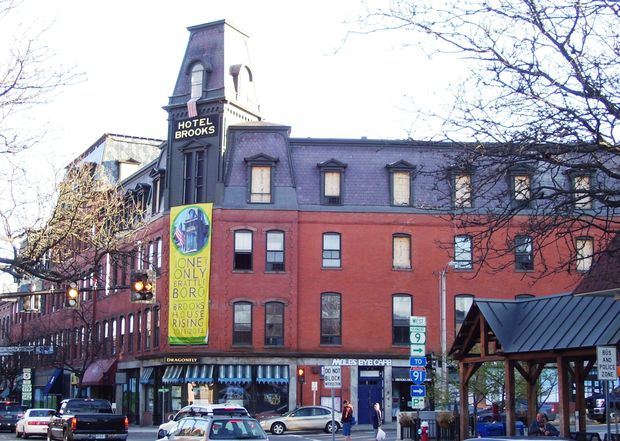 Brooks House, on Main Street in Brattleboro, Vermont, was built in 1871 as an 80-room luxury hotel to replace a previous hotel on the site which was destroyed by fire. On April 17, 2011, the current building was seriously damaged by fire, and efforts to repair the damage and renovate the building were continuing a year later, when the owner announced he was selling the building to a local consortium, who could better raise the necessary funds. The building is on the National Register of Historic Places and is located within the Brattleboro Downtown Historic District. (Sources: "The Visitor's Guide to Brattleboro and the Vibrant Villages of Southern Vermont" (2010), "A new lease on life" Brattleboro Reformer (April 4, 2012))